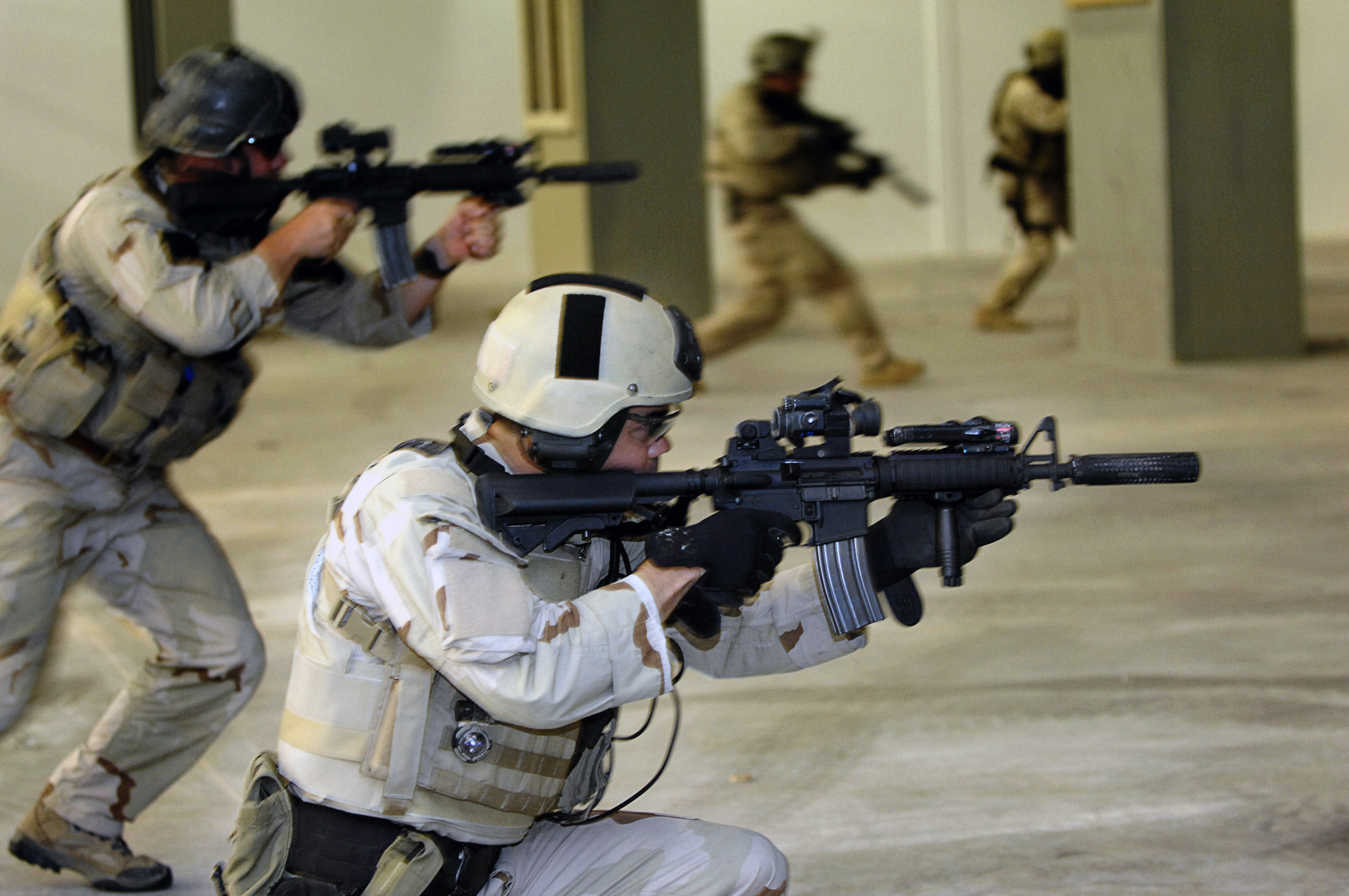 VIRGINIA BEACH, Va. (June 5, 2007) - U.S. Navy SEALs (Sea, Air, Land) perform a live fire exercise for the Secretary of the Navy (SECNAV) The Honorable Dr. Donald C. Winter at the Naval Amphibious Base Little Creek's shooting facility. U.S. Navy photo by Chief Mass Communication Specialist Shawn P. Eklund (RELEASED)